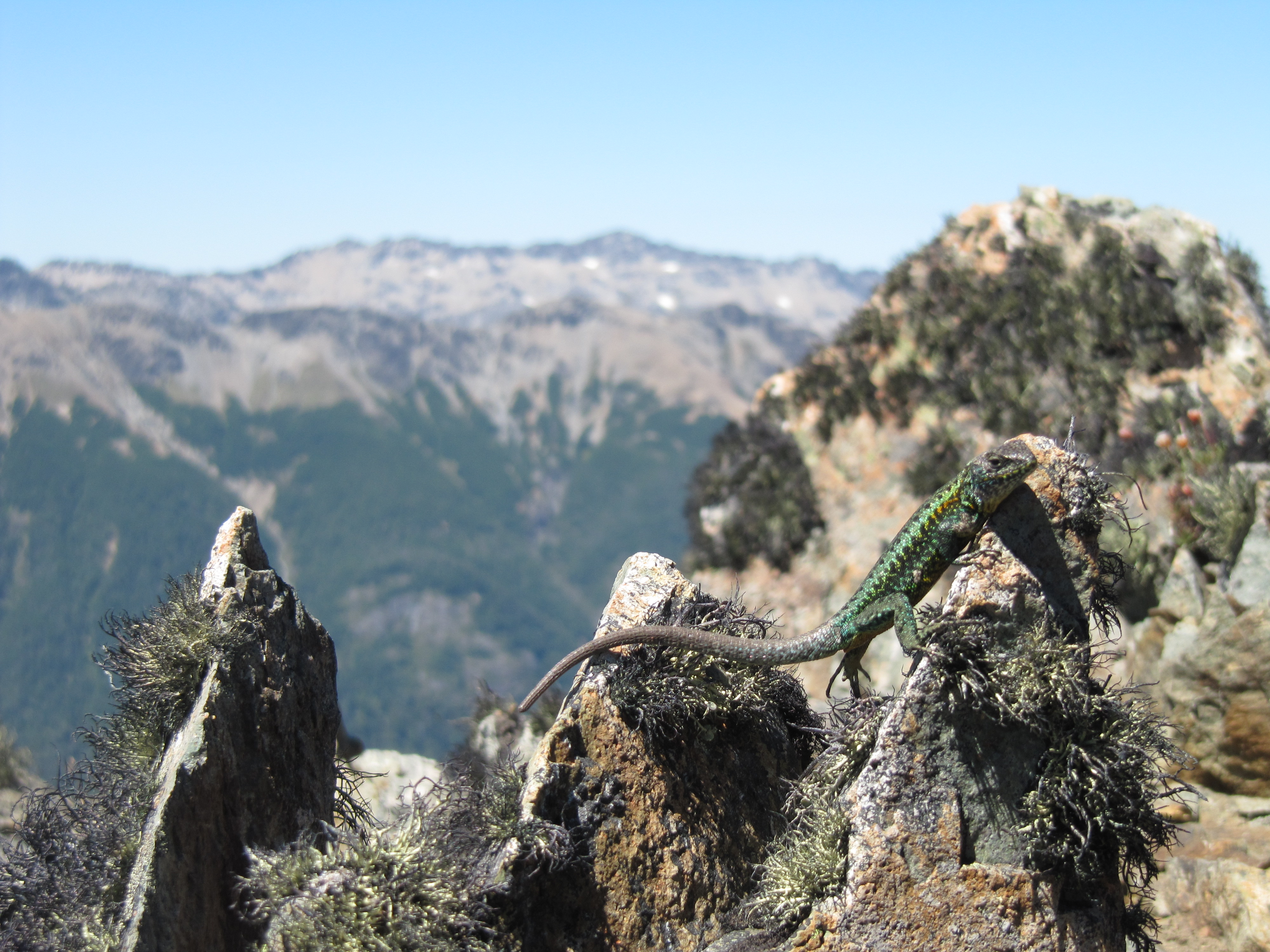 Liolaemus pictus